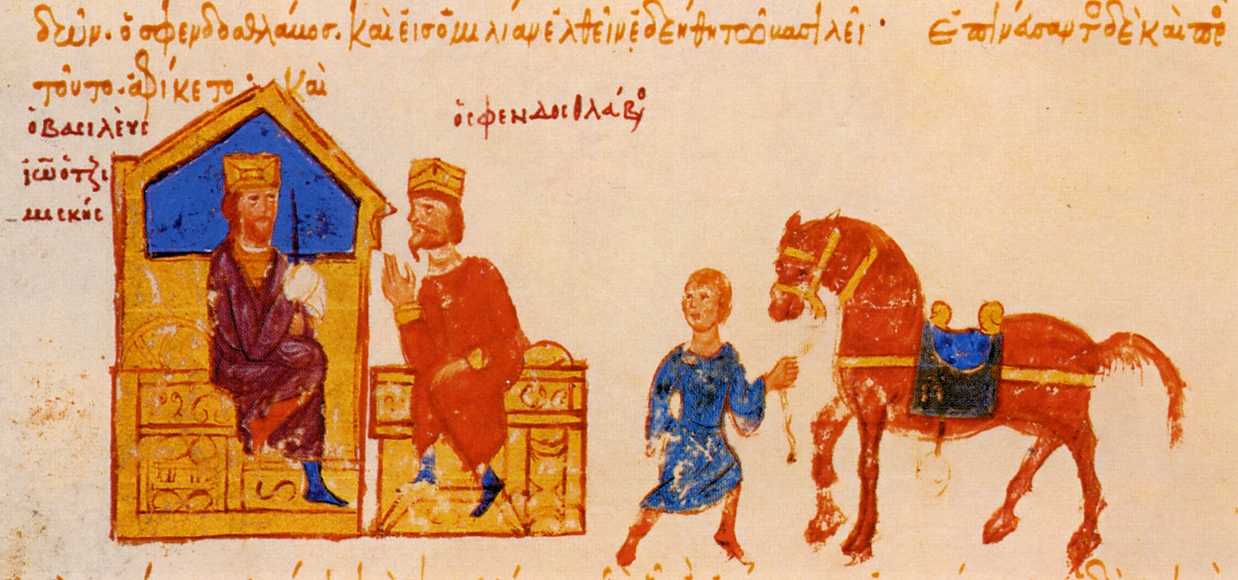 Meeting between Emperor John Tzimiskes and Sviatoslav I of Kiev in the Madrid Skylitzes, fol. 172rb